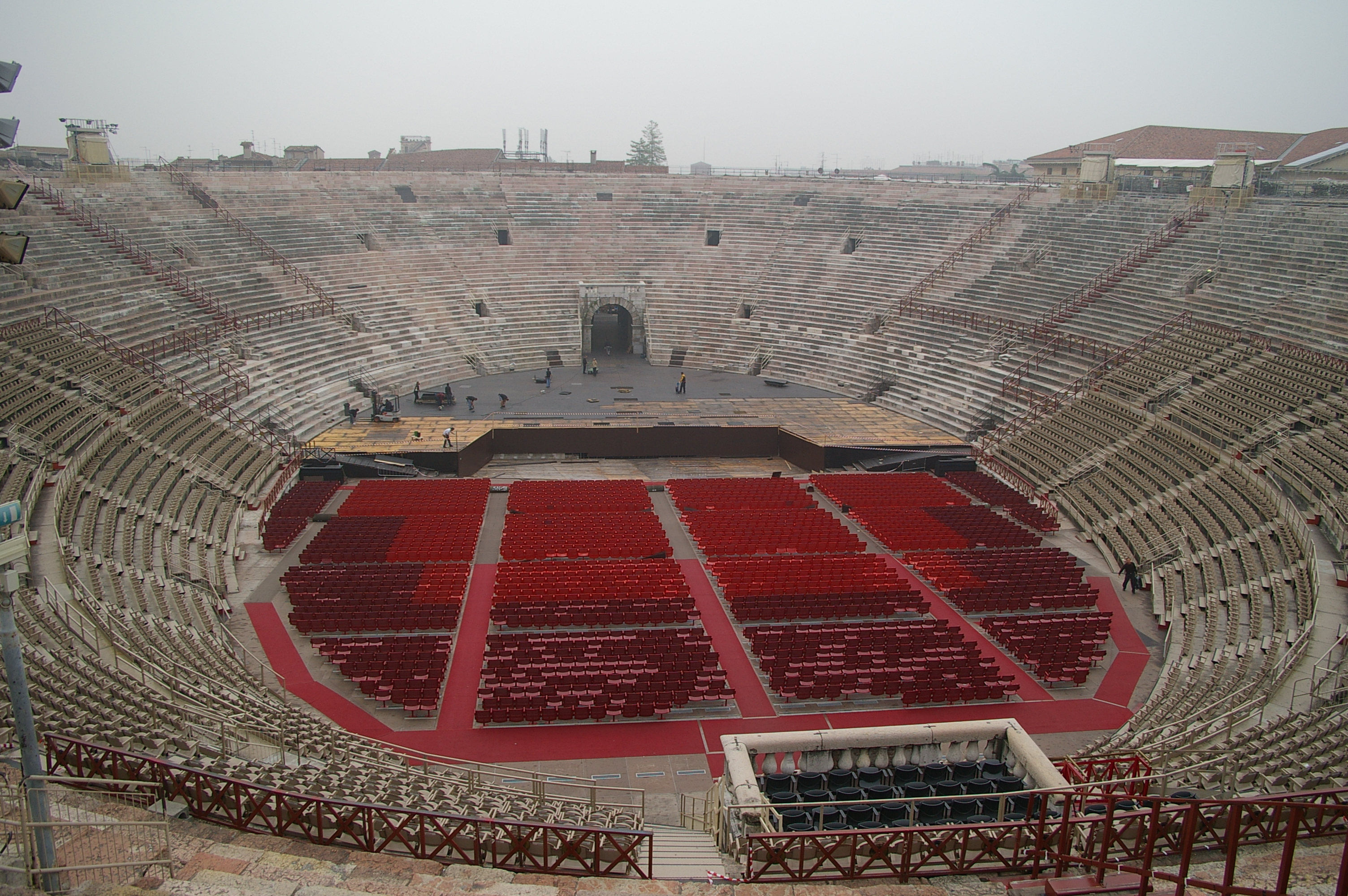 It's a lot more massive and higher than I anticipated. During my visit, they were dismantling the stage after a concert.